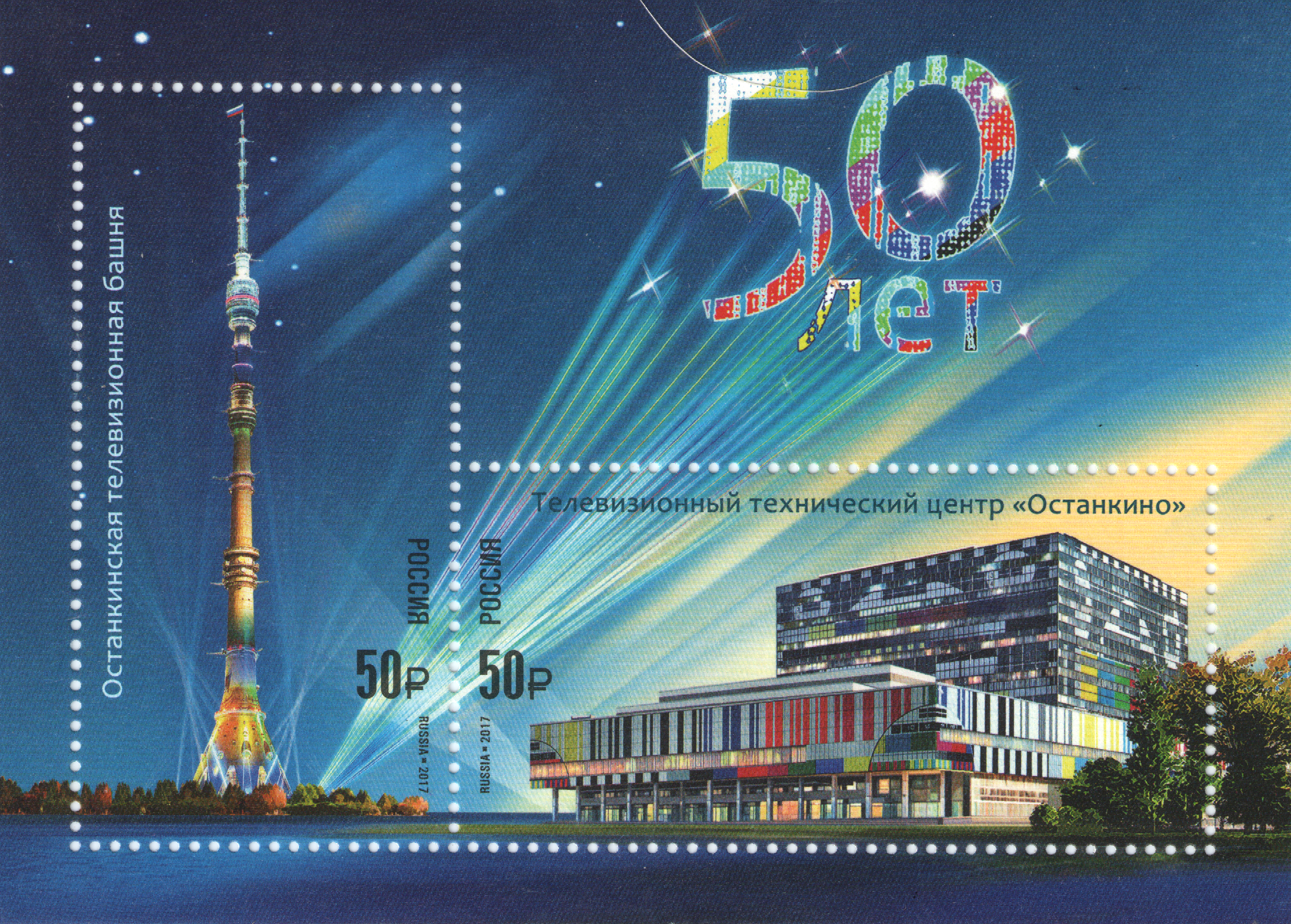 Russian postage stamp block (minisheet with 2 stamps) commemorating 50 years since the creation of Ostankino television complex. Price is 50 rubles per stamp.